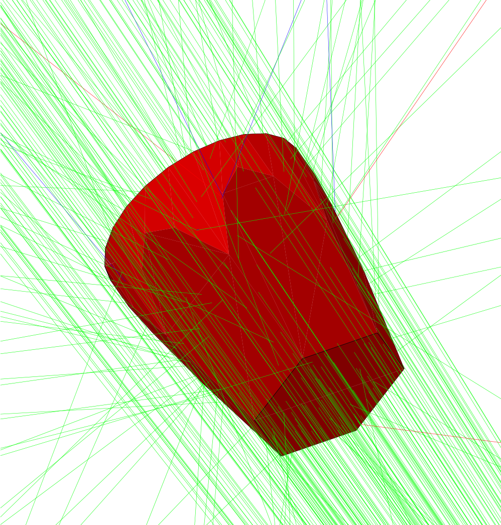 A picture of a Monte-Carlo-Simulation with Geant4. This detector is a single AGATA-detector. The green lines represent gamma radiation from a source with a small opening angle.